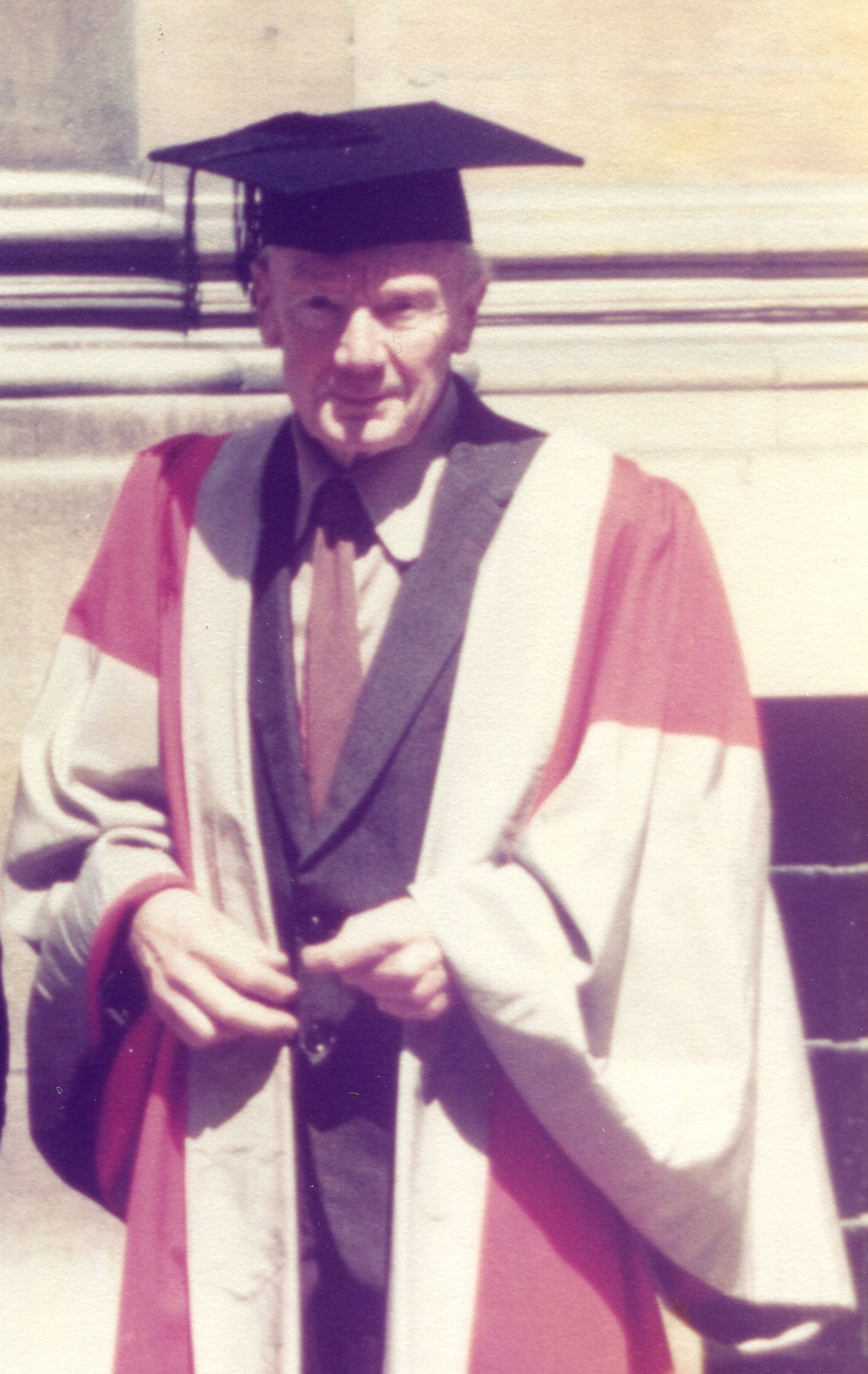 E. J. "Ted" Bowen in Oxford University Doctor of Science academic dress, outside the Sheldonian Theatre, Oxford, England,1977.